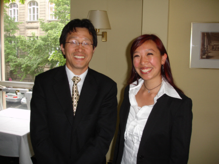 Fotograf of Prof. Dr. Jhy-Wey Shieh (representive official of Taiwan - Taipeh embassy in Federal Republic of Germany) and Jenny Hsieh, chairwoman of EU FAPA during a press conference about Taiwans joining WHO.